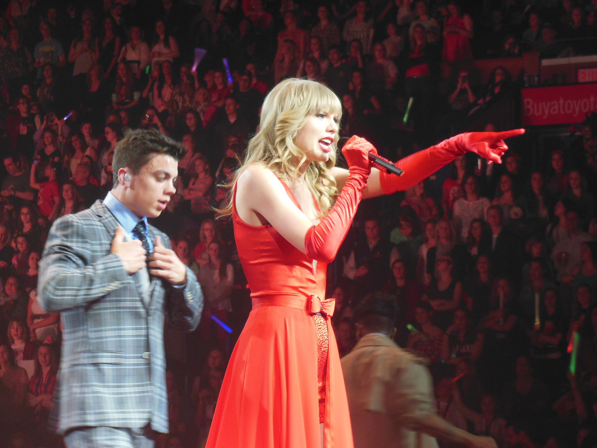 Taylor Swift during the Red Tour, March 2013, performing The Lucky One